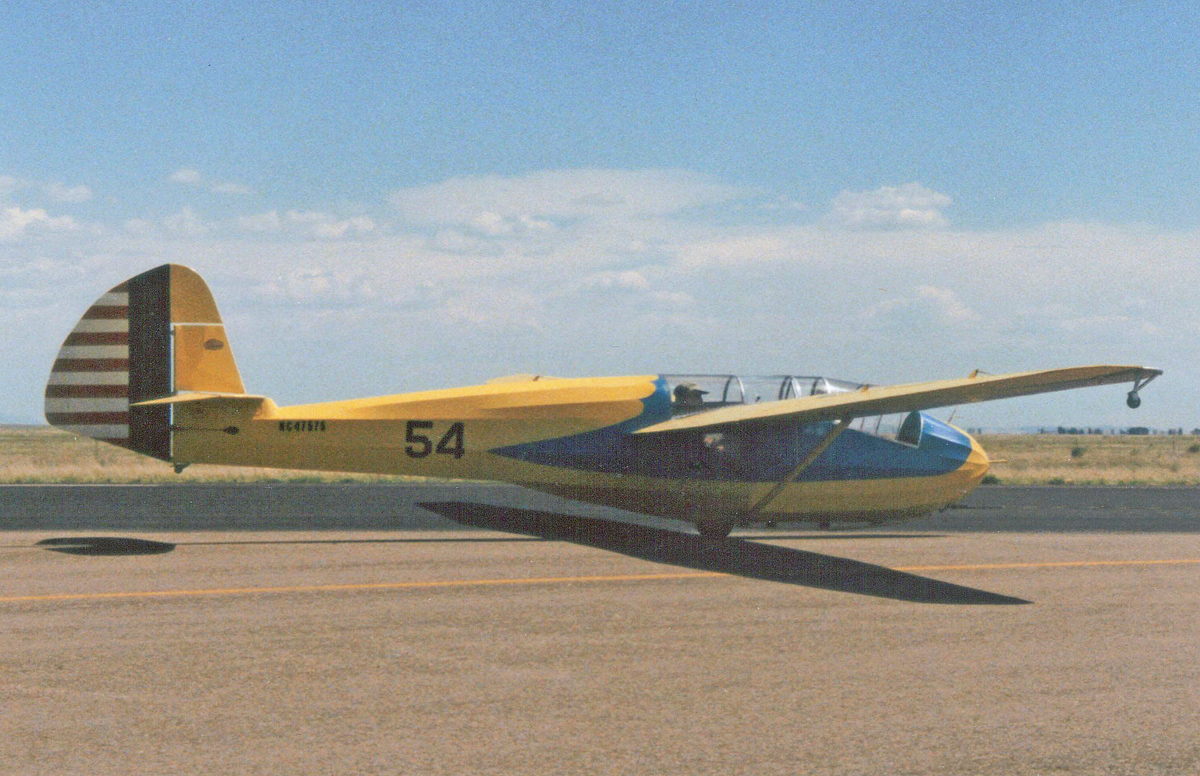 1942-built Schweizer TG-2 glider built for the USAAF for training use. Civilianised in 1946 as NC47575. Shown competing in a vintage glider competition at Moriarty NM in June 1997.